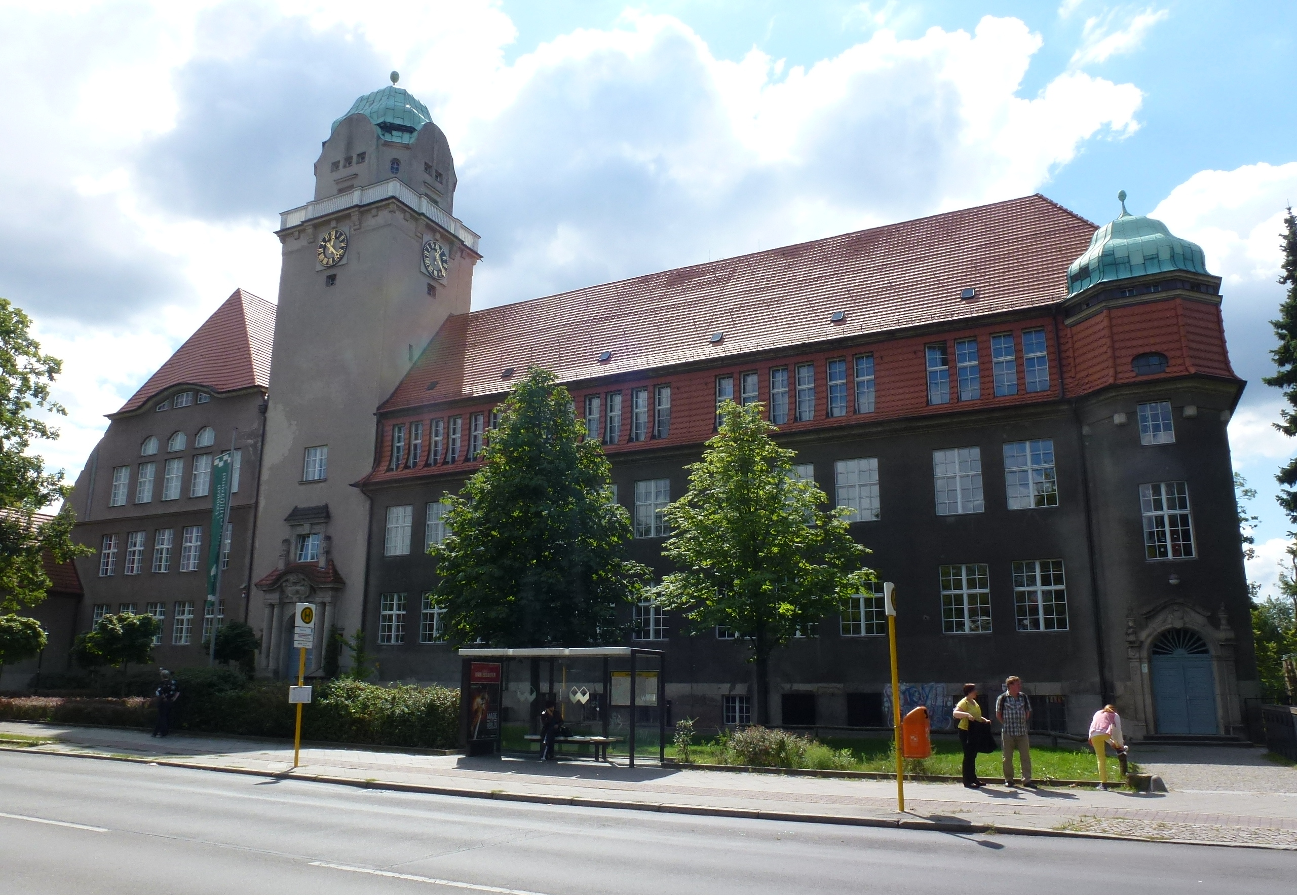 Berlin-Dahlem Königin-Luise-Straße Arndt-Gymnasium